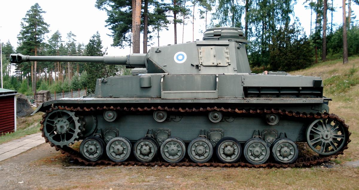 German Panzer IV Ausf. J medium tank, in Finnish markings, displayed in Finnish Tank Museum (Panssarimuseo) in Parola. Photo taken on July 14, 2006. Source: Photo by me, User:Balcer.